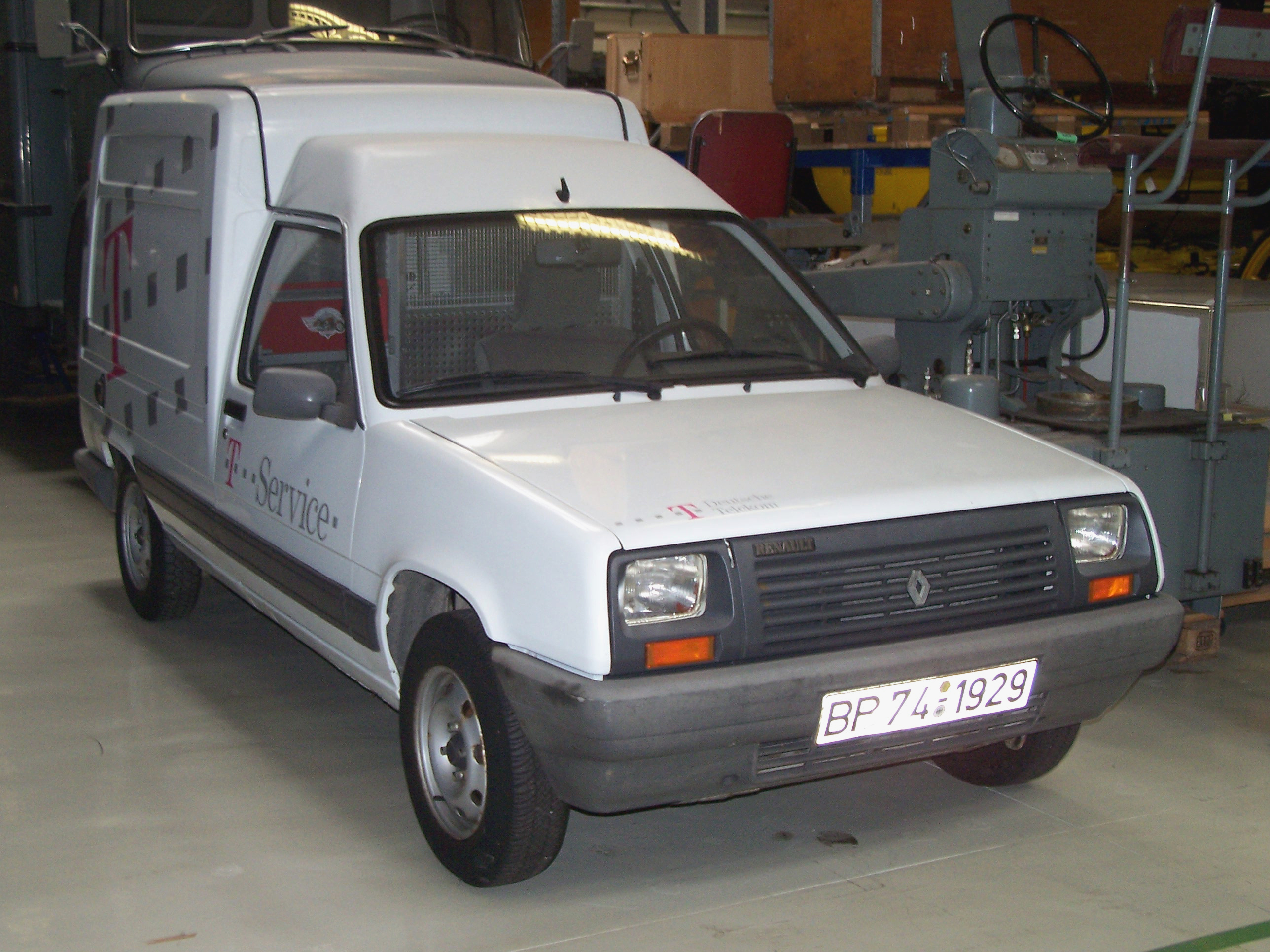 Renault Rapid van of the Deutschen Telekom-T-Service, in the depot of the Museum for communication Frankfurt am Main in Heusenstamm